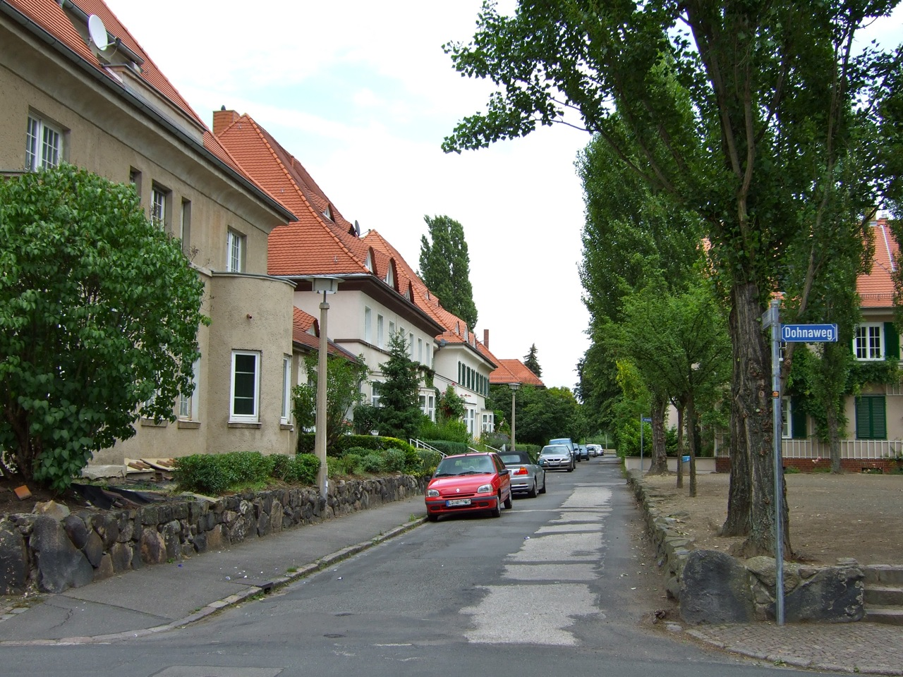 The street Denkmalsblick in Leipzig-Marienbrunn